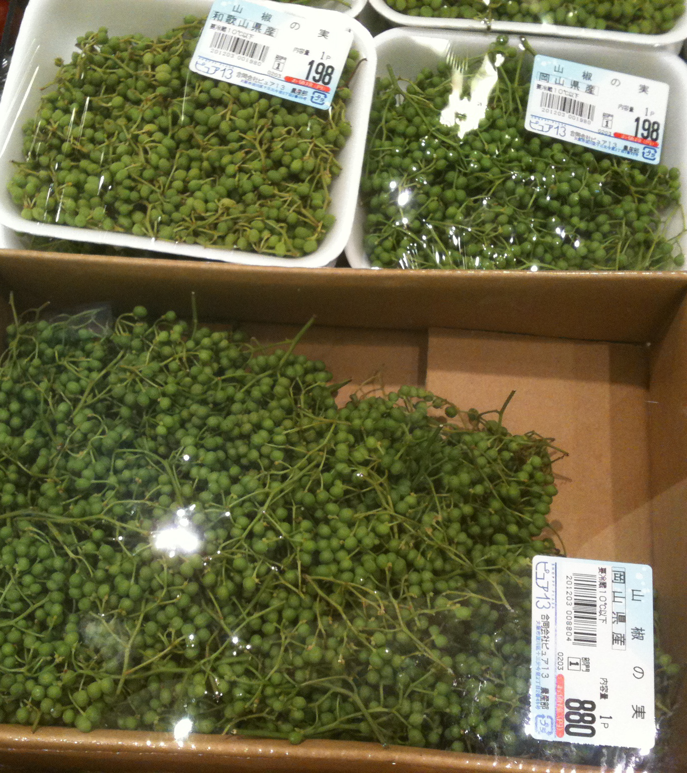 Japanese pepper (Zanthoxylum piperitum) harvested in Okayama Prefecture and sold at supermarket in Osaka, Japan.